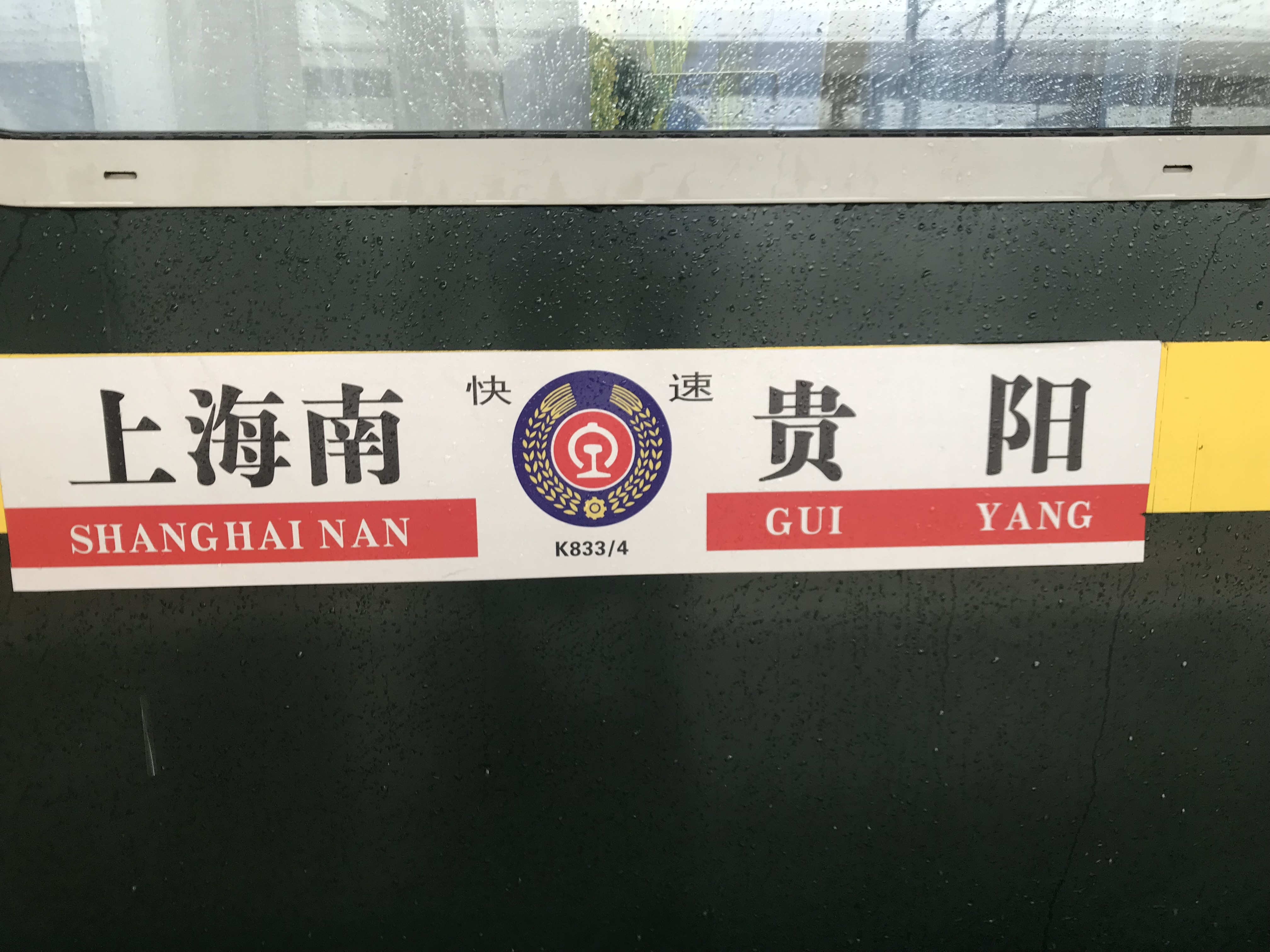 Taken at Jinhua Station